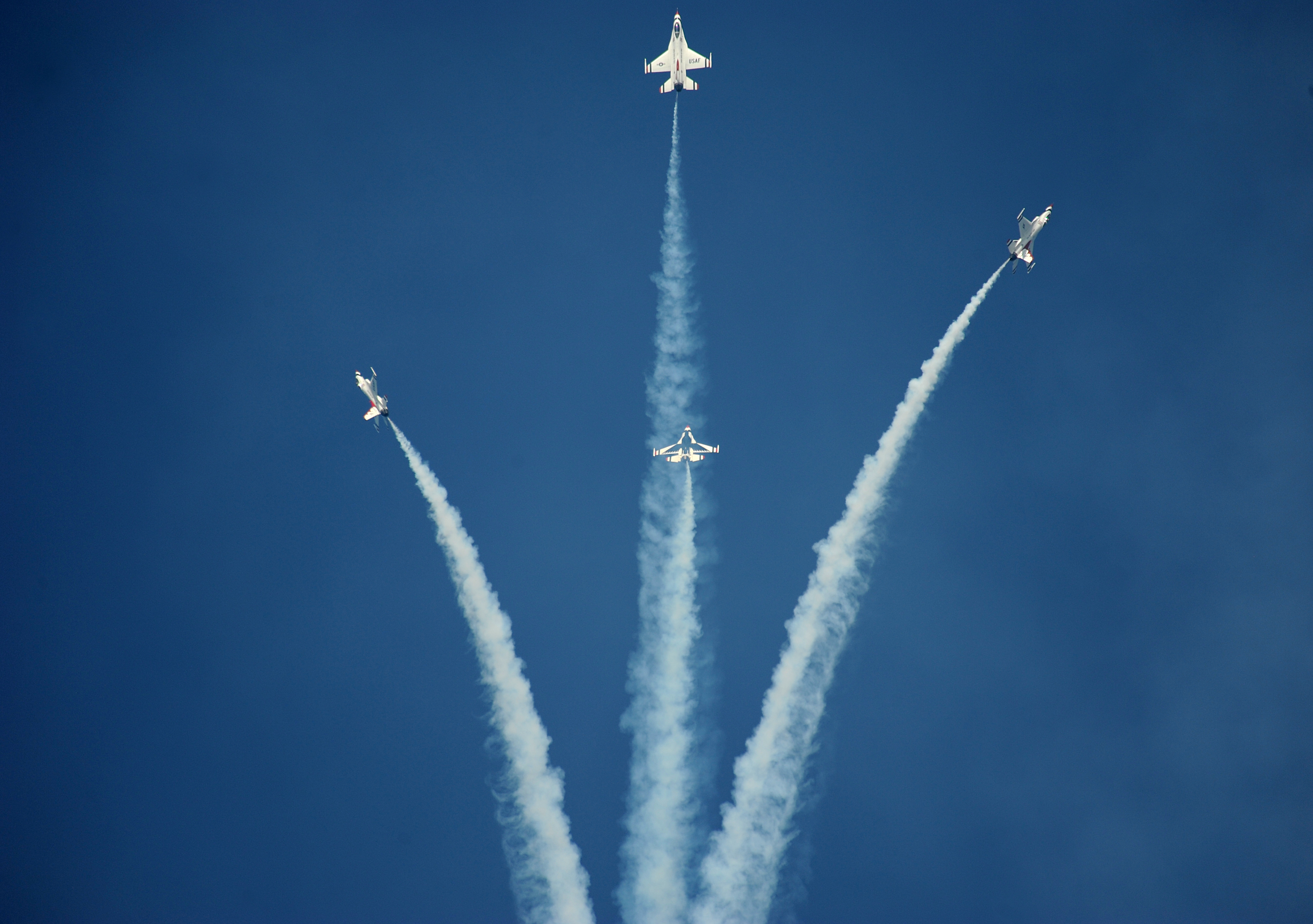 The U.S. Air Force Air Demonstration Squadron "Thunderbirds" perform the High Bomb Burst during the Cleveland National Air Show.